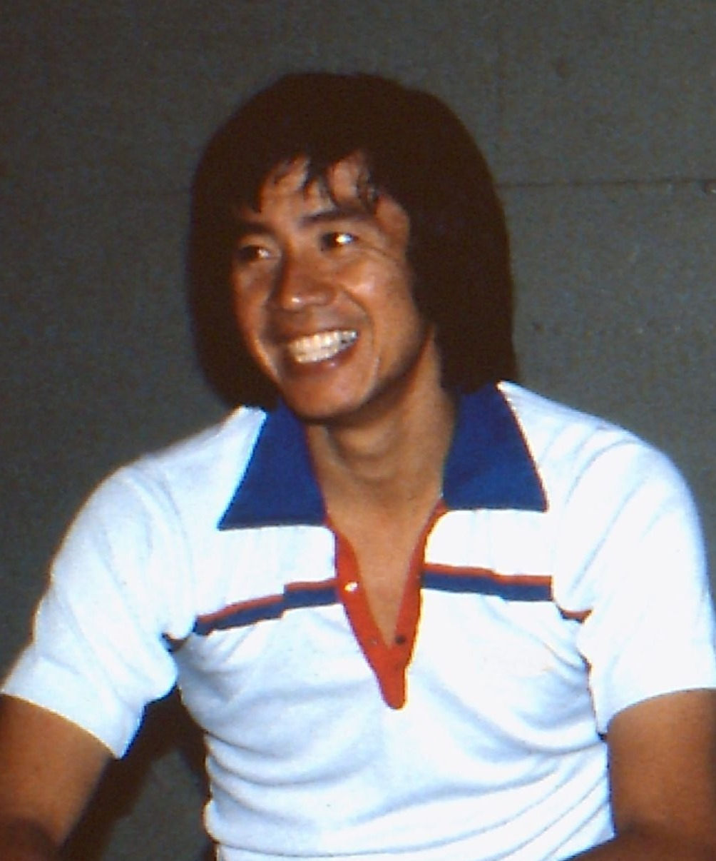 Rudy Hartono, Utami Kinard, Chris Kinard